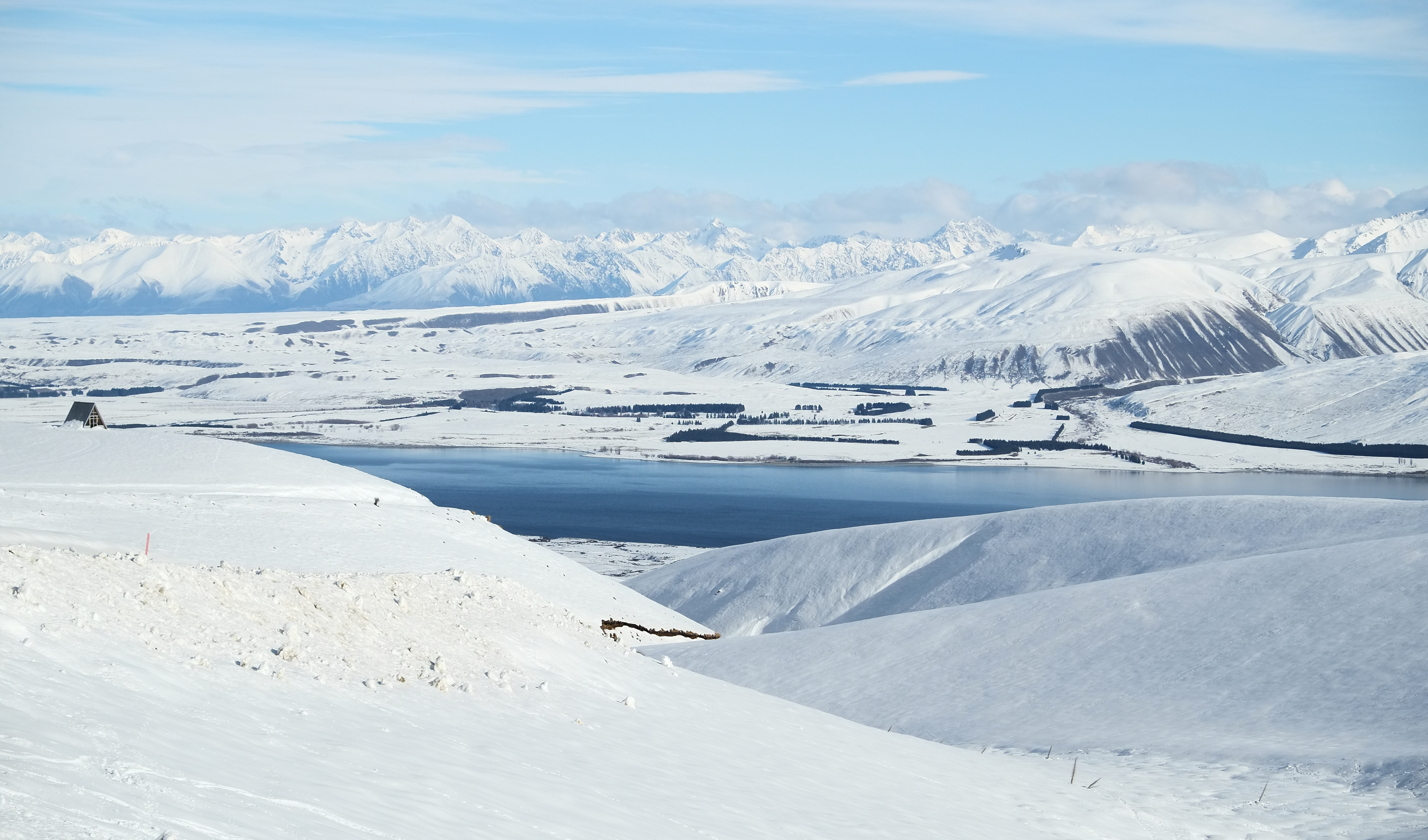 Winter view from Roundhill Ski Area to Lake Tekapo